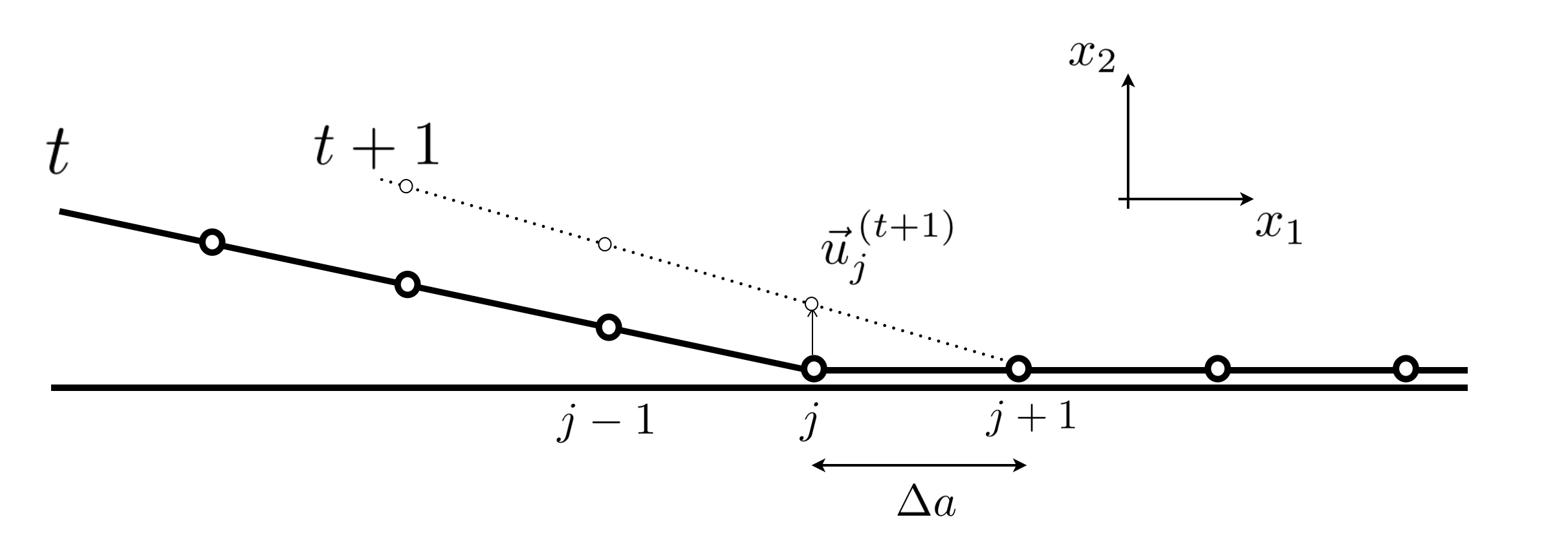 Nodal Release Fracture Mechanics